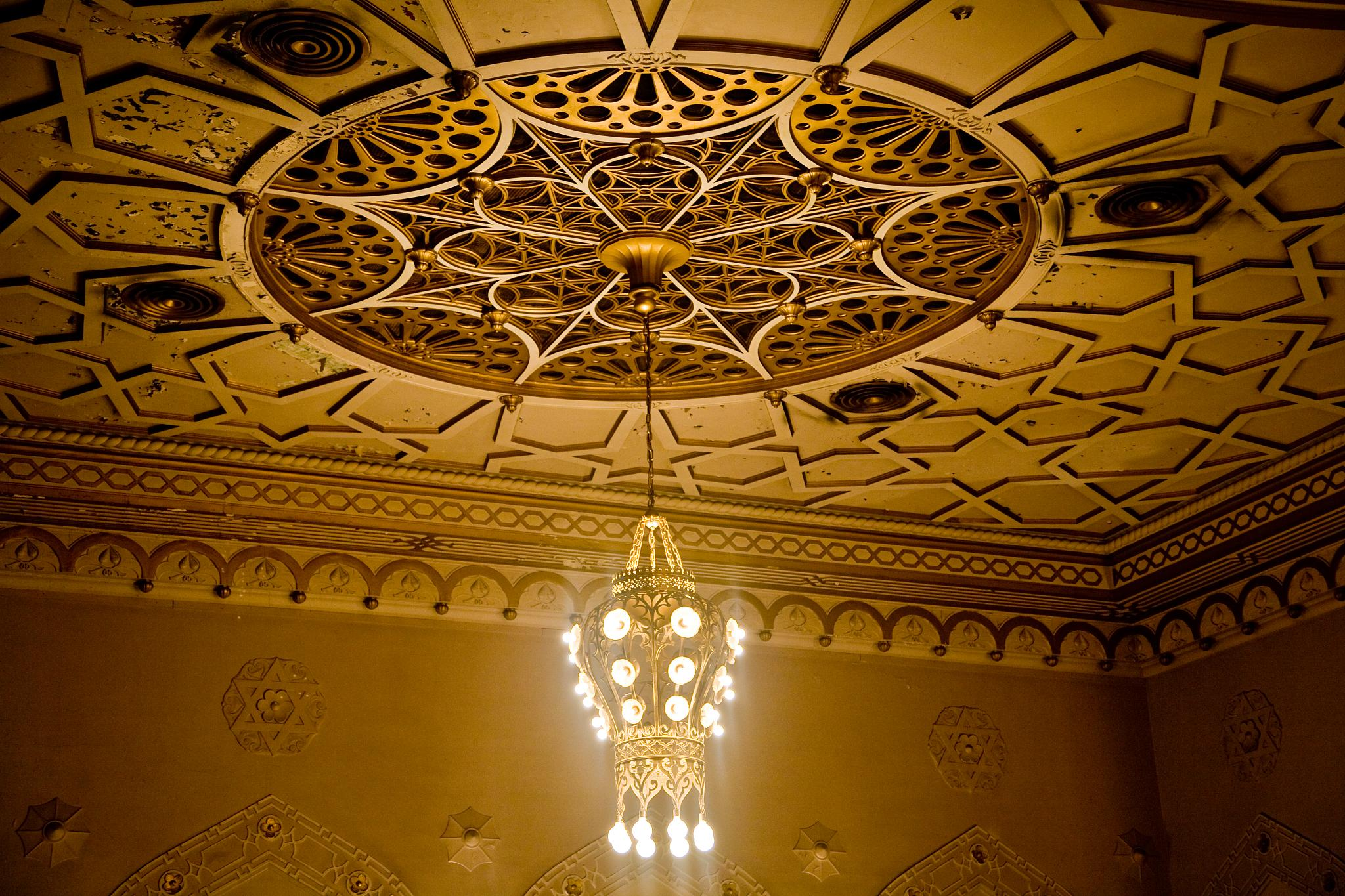 New York City Center